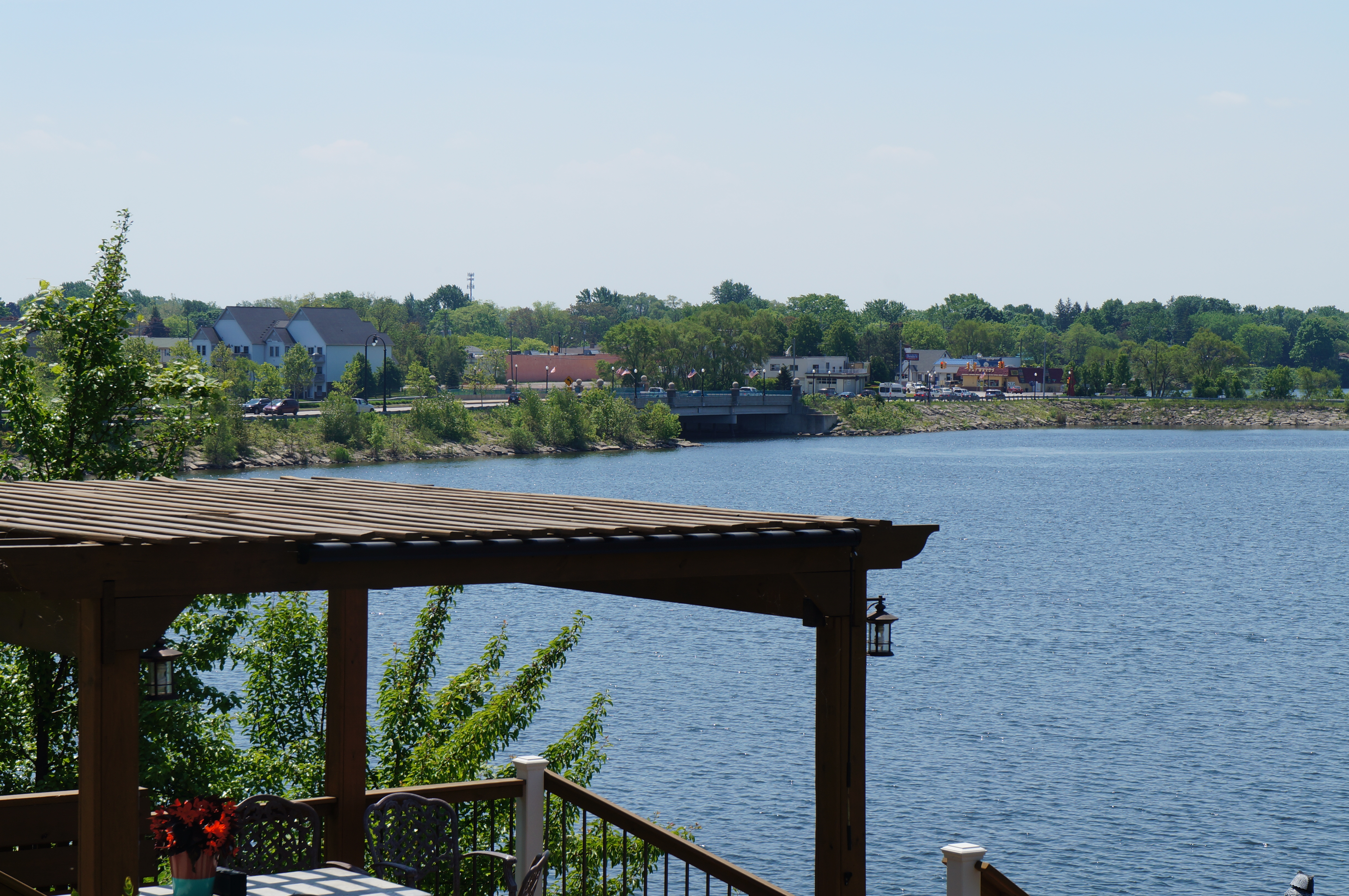 Belleville Michigan Bridge from Quirk Road